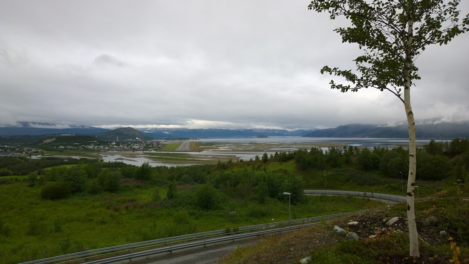 Airport and city of Alta seen from the Lille Borras hill, South-East direction